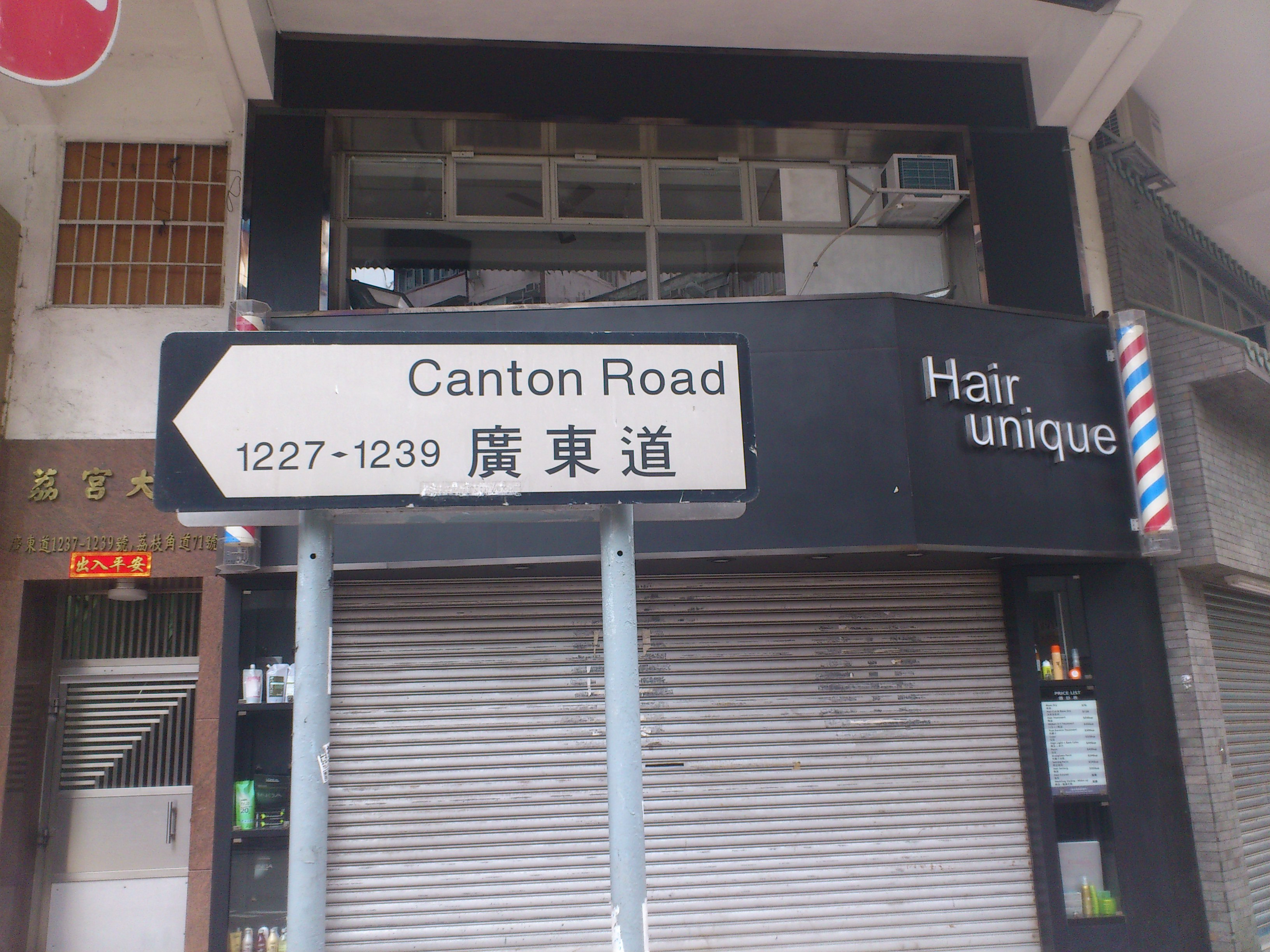 No.1239, Canton Road, Mong Kok, Kowloon Hong Kong